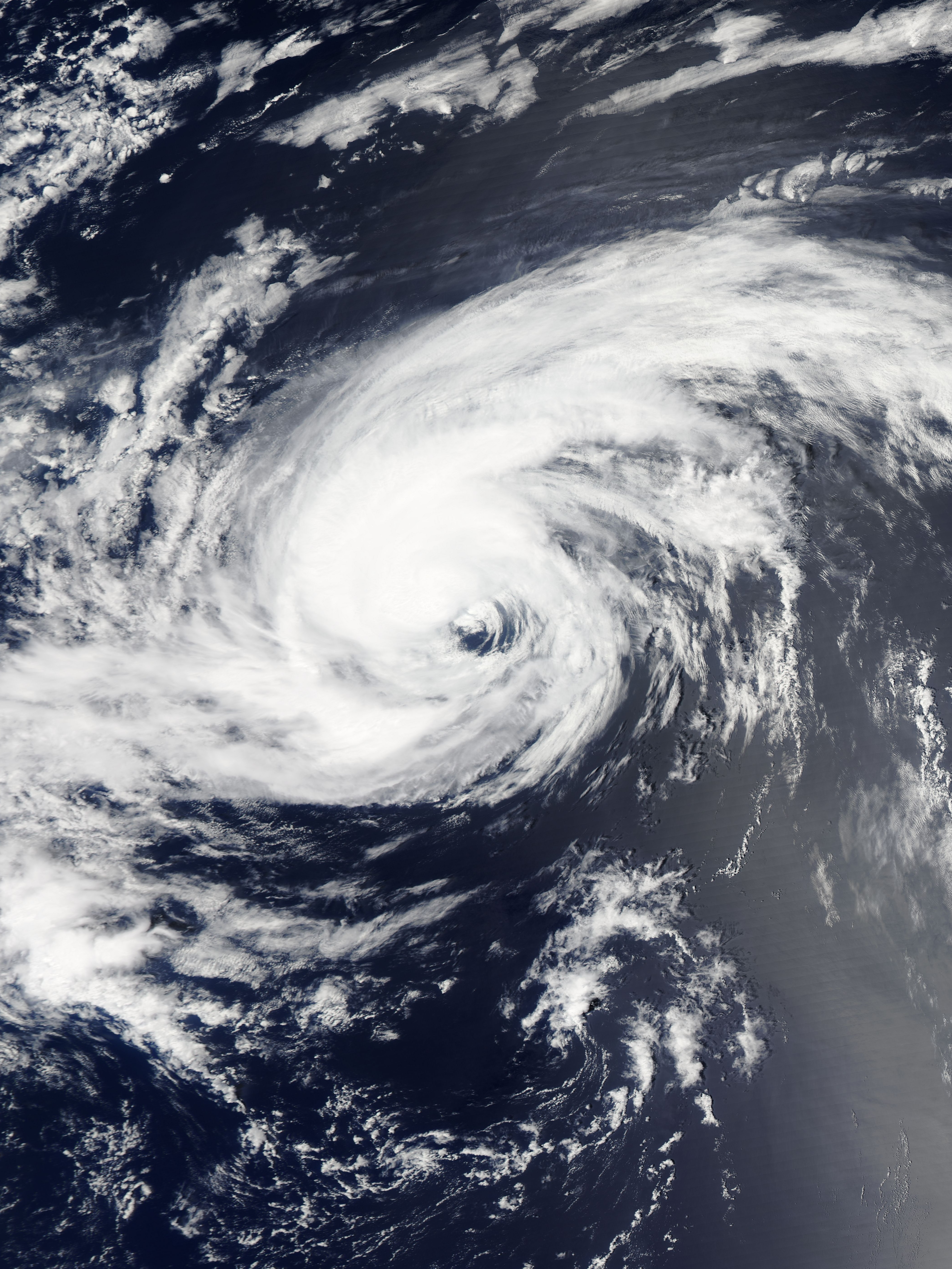 Severe Tropical Storm Genevieve west-northwest of Midway Atoll on August 11, 2014.